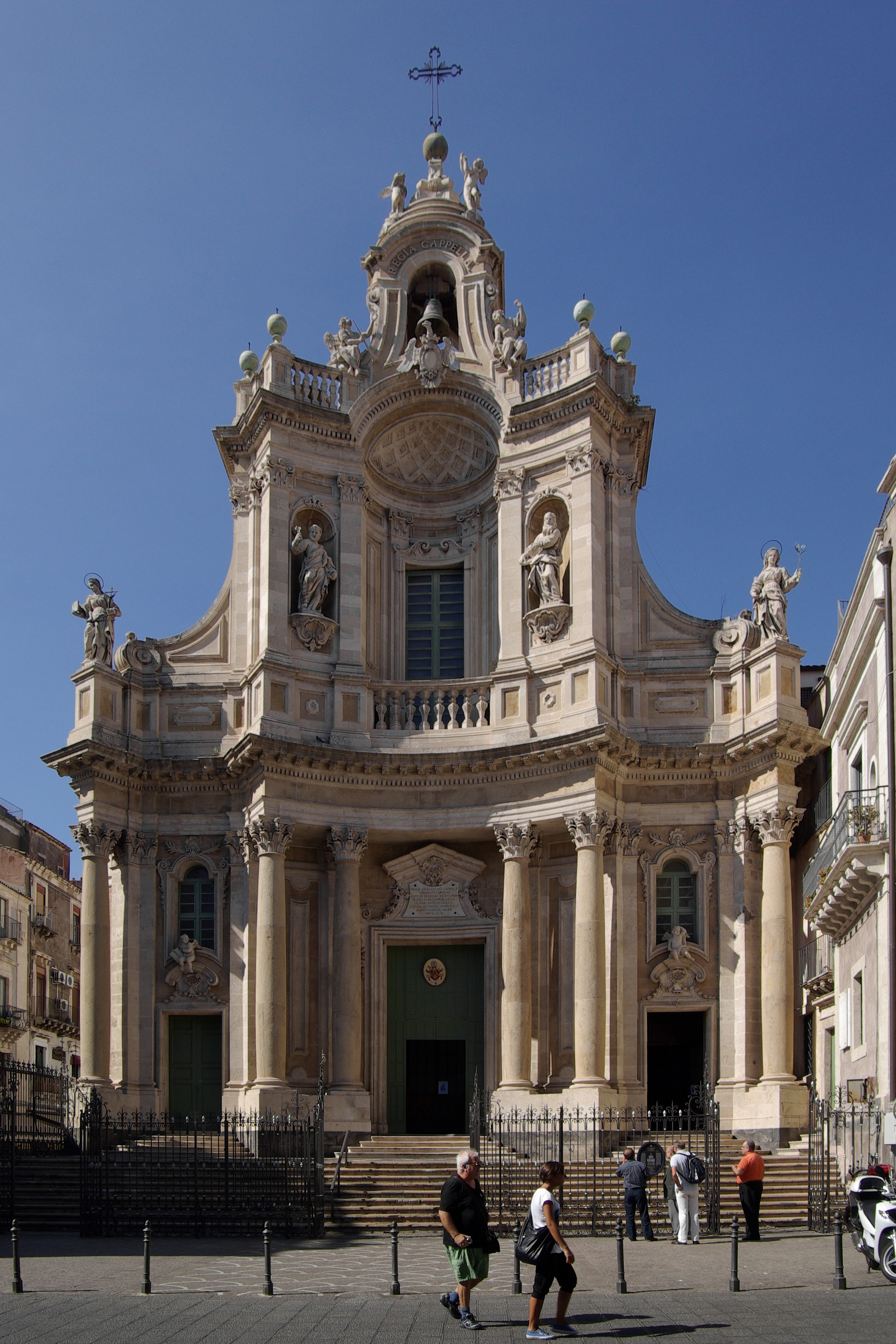 Italy, Sicily, Catania, Santa Maria dell'Elemosina also named Basilica Collegiata